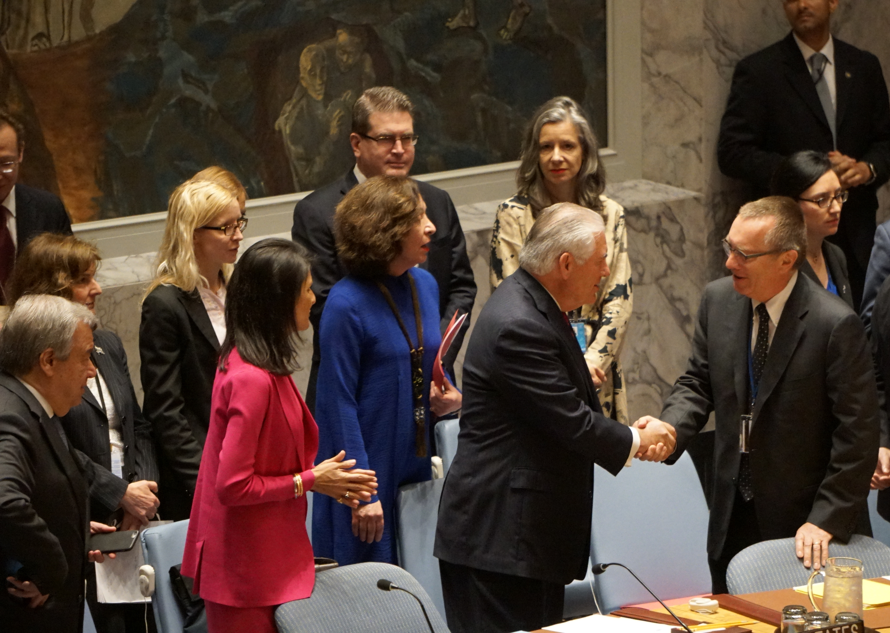 With UN Secretary-General António Guterres and Ambassador Nikki Haley, U.S. Permanent Representative to the United Nations, looking on, U.S. Secretary of State Rex Tillerson shakes hands with UN Under-Secretary-General for Political Affairs Jeffrey Feltman before chairing a UN Security Council Meeting on Denuclearization of the Democratic People’s Republic of Korea (DPRK) at the United Nations in New York City on April 28, 2017. State Department photo/ Public Domain]